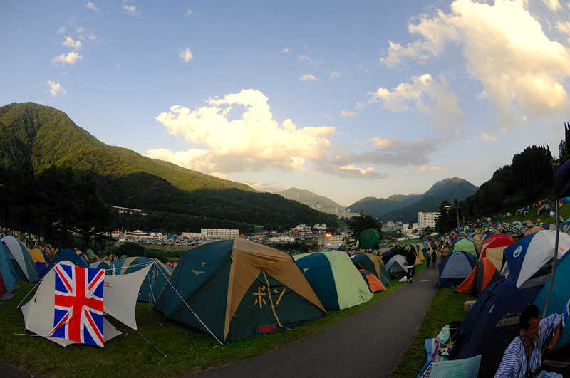 Camping at Fuji Rock Festival